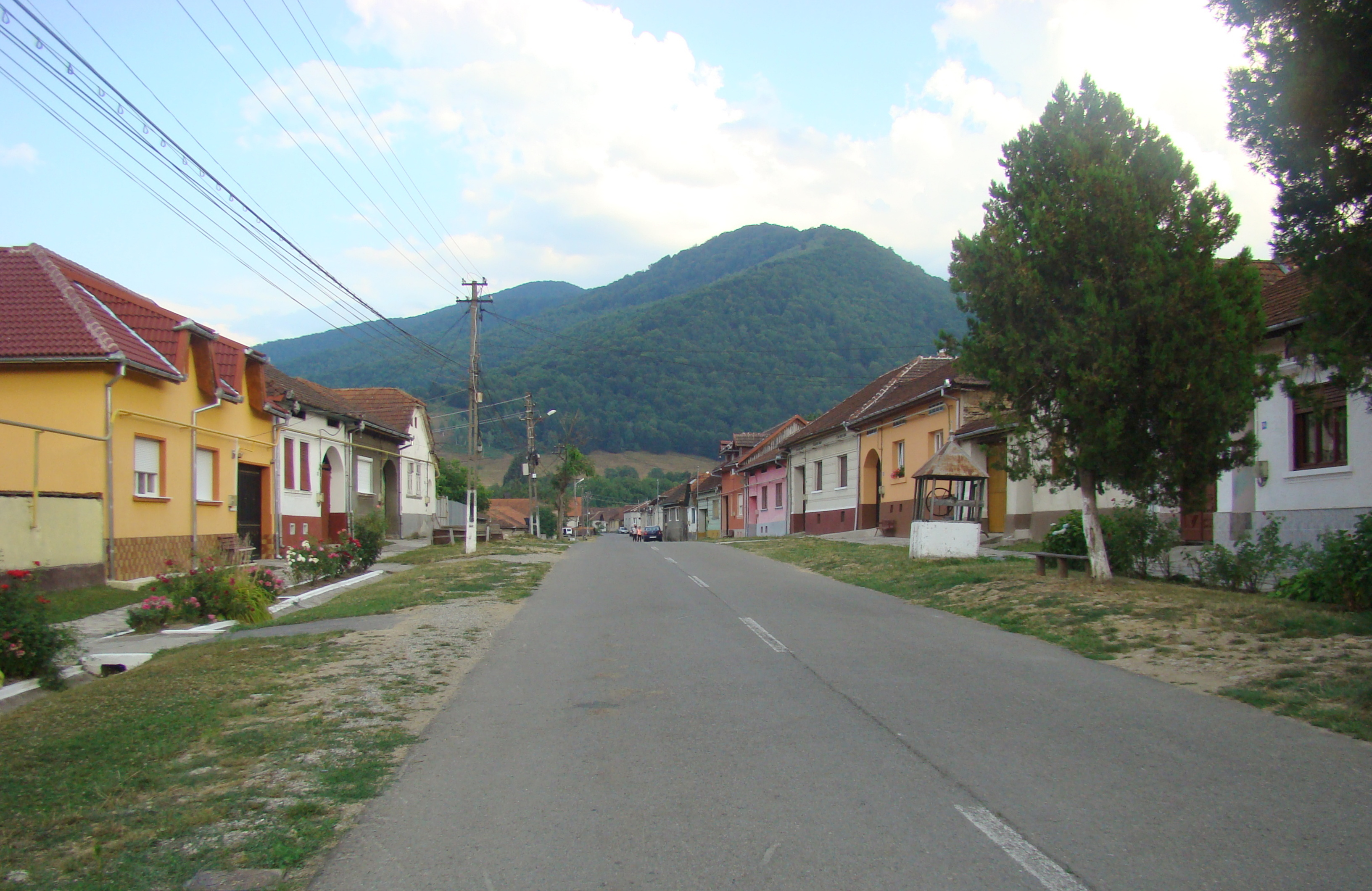 Marga, Caraș-Severin county, Romania